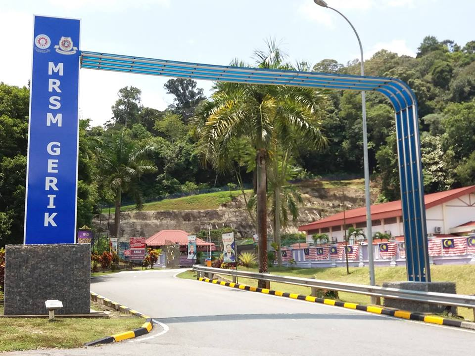 View from the entrance